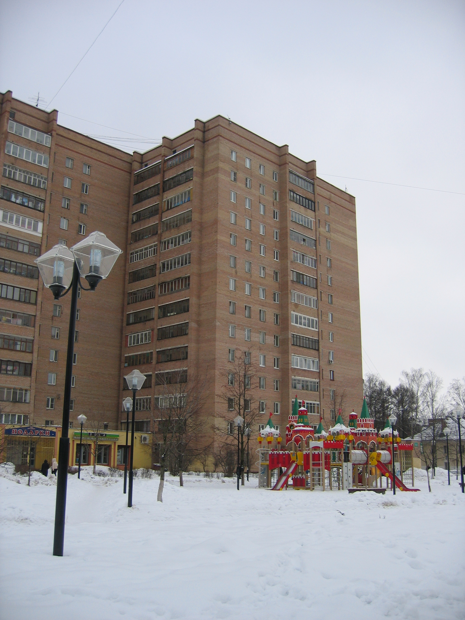 Houses in Zheleznodorozhny, Moscow Oblast